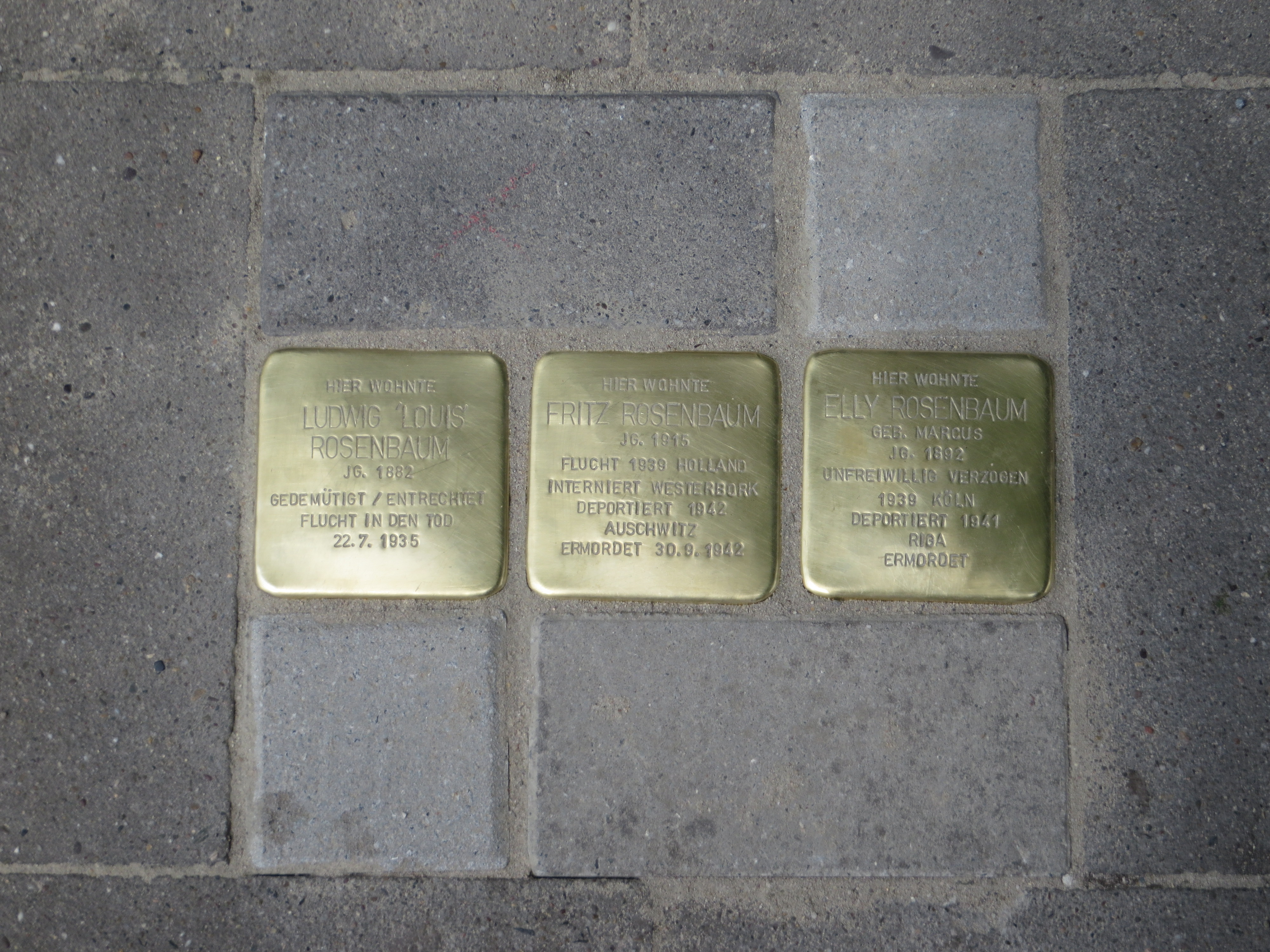 Stolpersteine at house Körnerstraße 34 in Witten, Germany